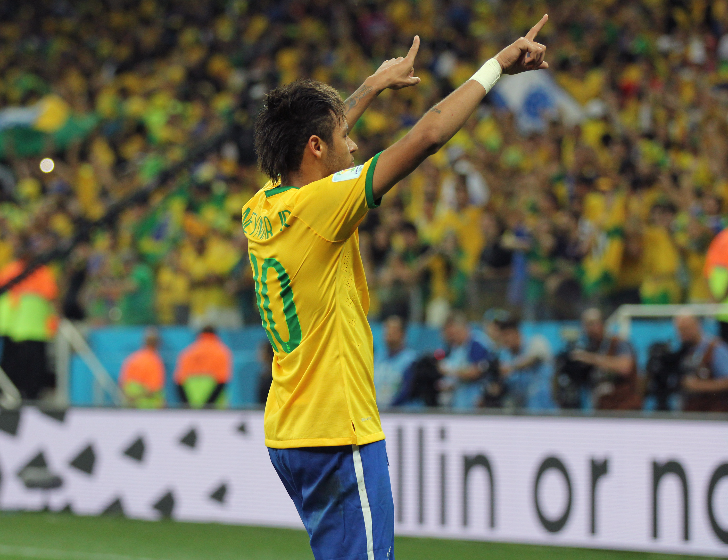 Brazil and Croatia match at the FIFA World Cup 2014-06-12